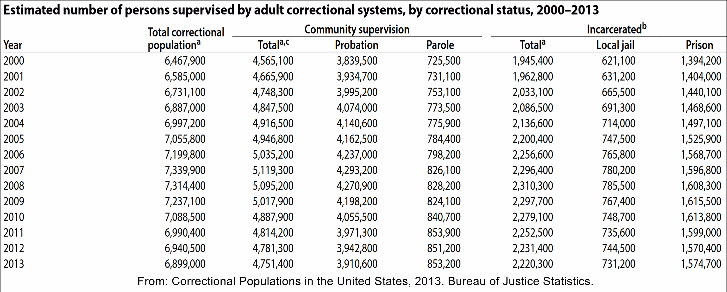 USA. Estimated number of persons supervised by adult correctional systems, by correctional status, 2000–2013. From page 11 of the source PDF: "Total includes all inmates held in local jails, state or federal prisons, or privately operated facilities. It does not include inmates held in U.S. territories (appendix table 3), military facilities (appendix table 3), in U.S. Immigration and Customs Enforcement facilities, in jails in Indian country (appendix table 3), or in juvenile facilities." From page 7 of the source PDF: "In these data, adults are persons who are subject to the jurisdiction of an adult court or correctional agency. Persons age 17 or younger who were prosecuted in criminal court as if they were adults are considered adults, but persons age 17 or younger who were under the jurisdiction of a juvenile court or agency are excluded."